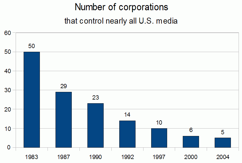 Number of corporations that control nearly all U.S. media (through time)